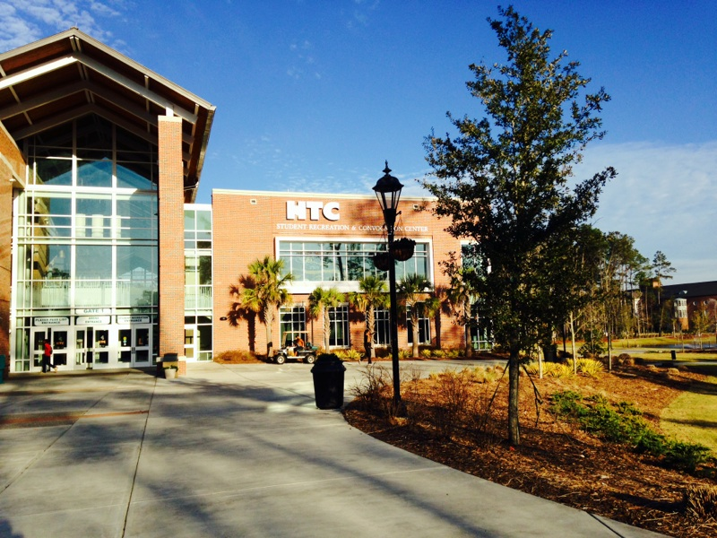 The HTC Center is located at Coastal Carolina University in Conway, South Carolina.